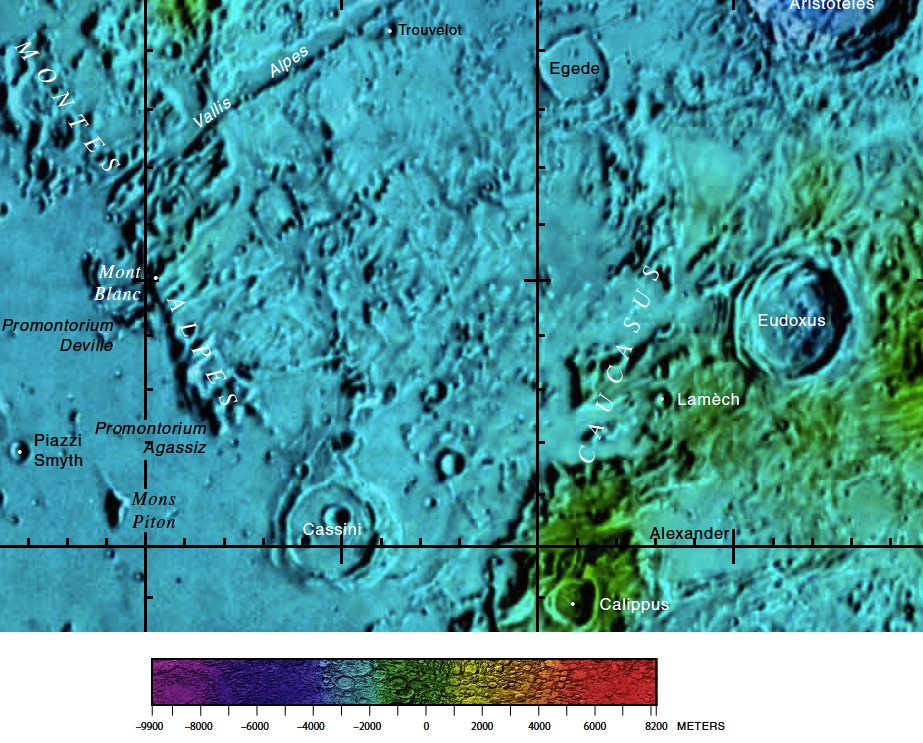 Part of the USGS near side lunar chart